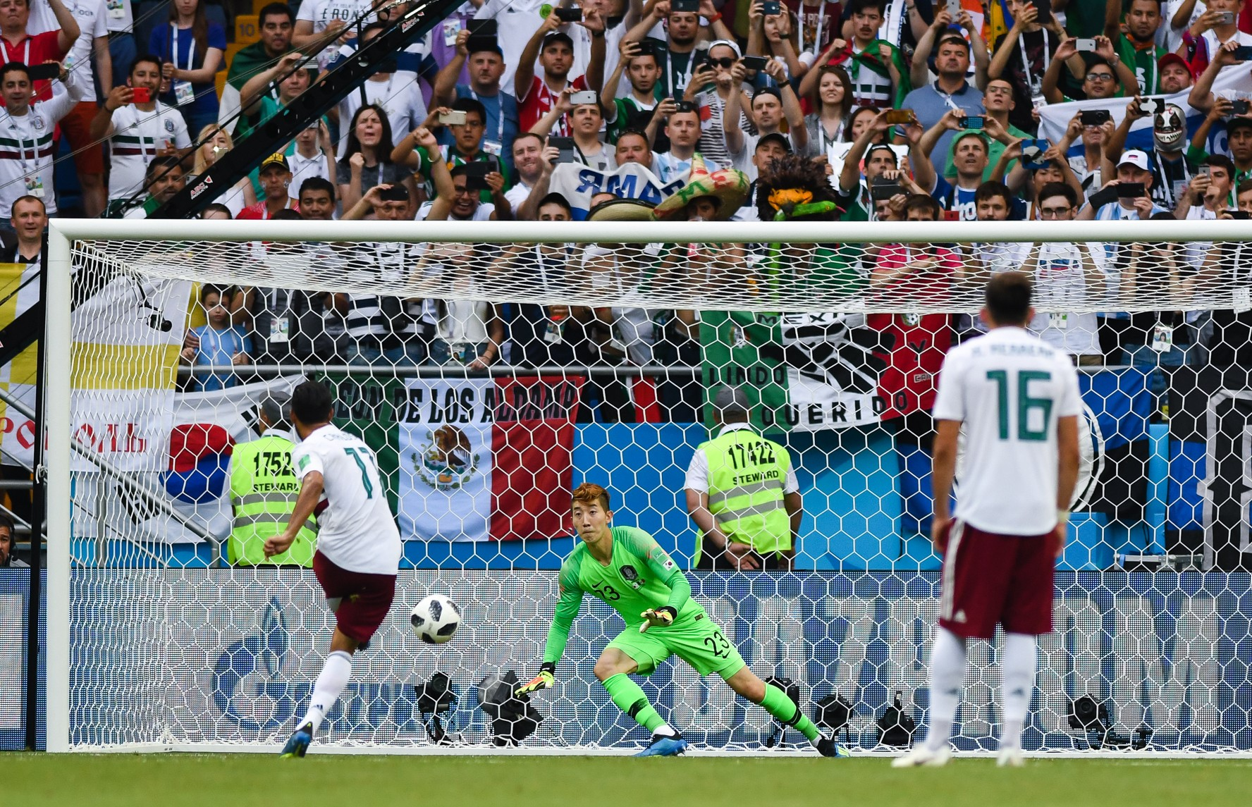 Mexico and South Korea match at the FIFA World Cup 2018-06-23